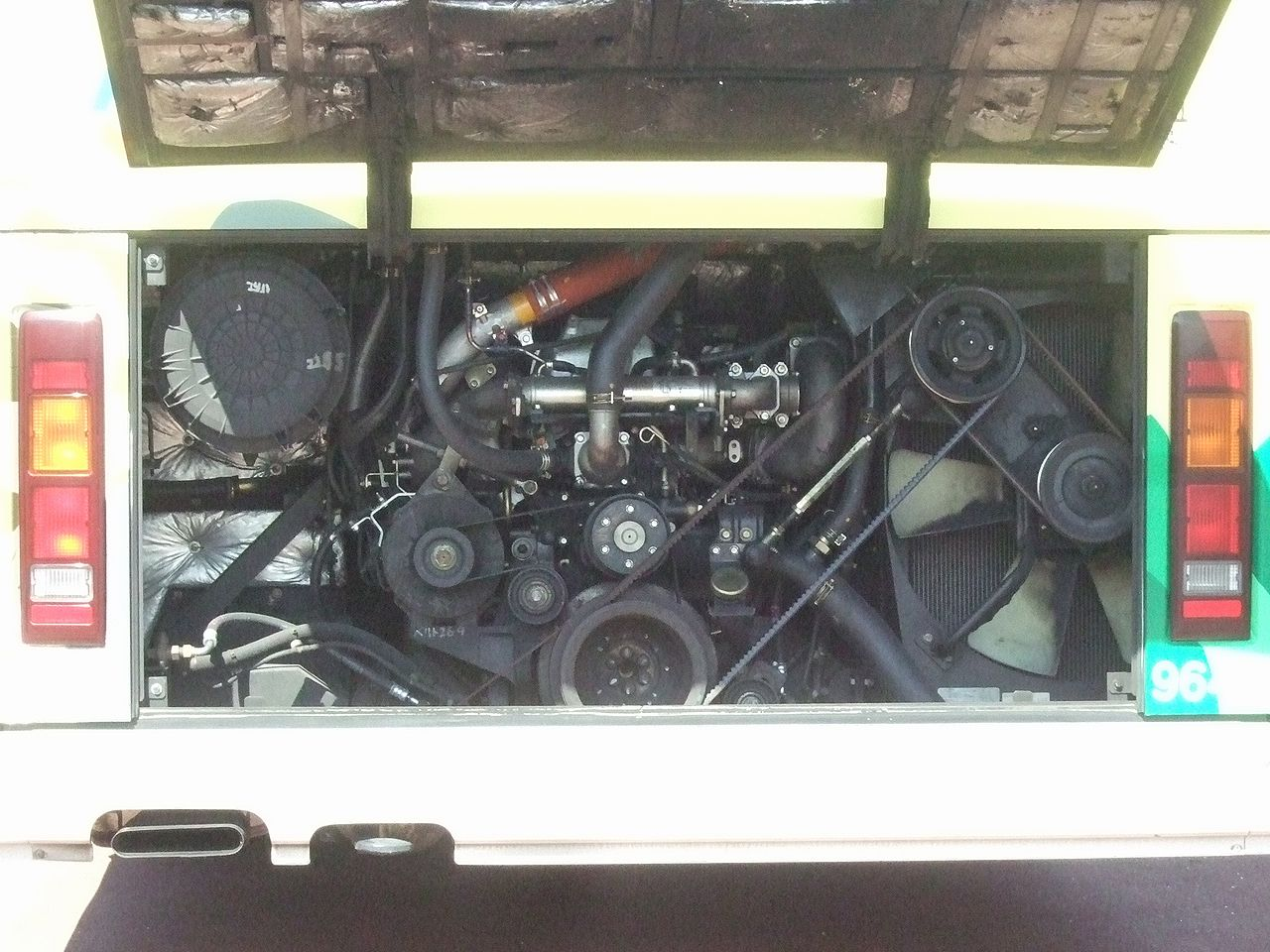 The engine room of Nissan Diesel Space Runner RA( PKG-RA274MAN).